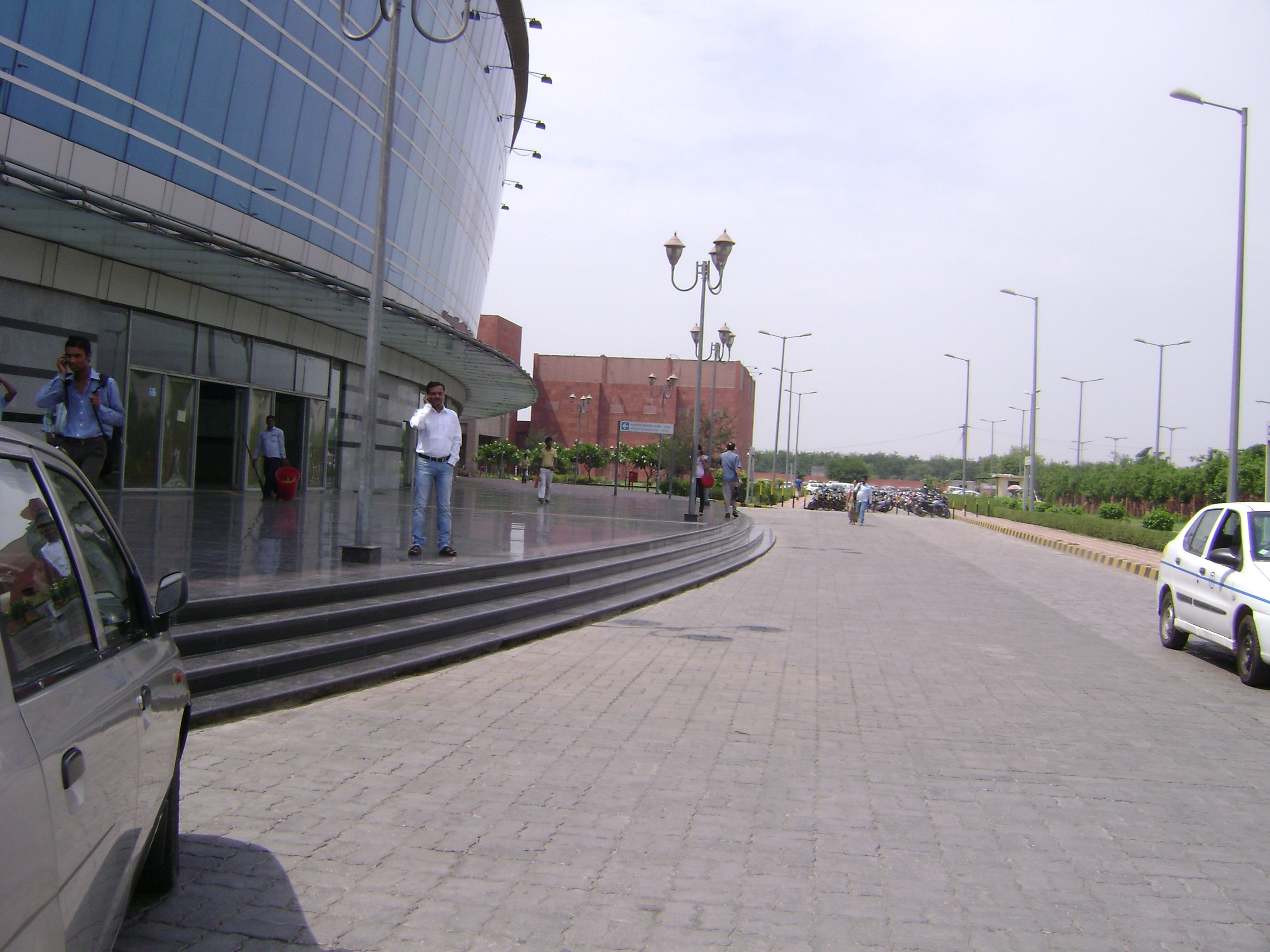 Right side view of Dwarka Sector 21 Metro Station